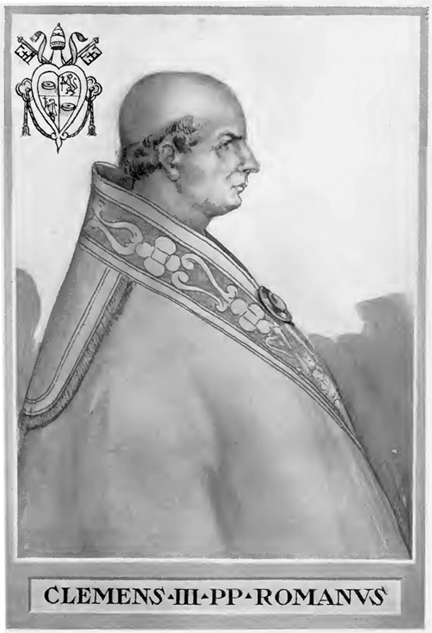 This illustration is from The Lives and Times of the Popes by Chevalier Artaud de Montor, New York: The Catholic Publication Society of America, 1911. It was originally published in 1842.